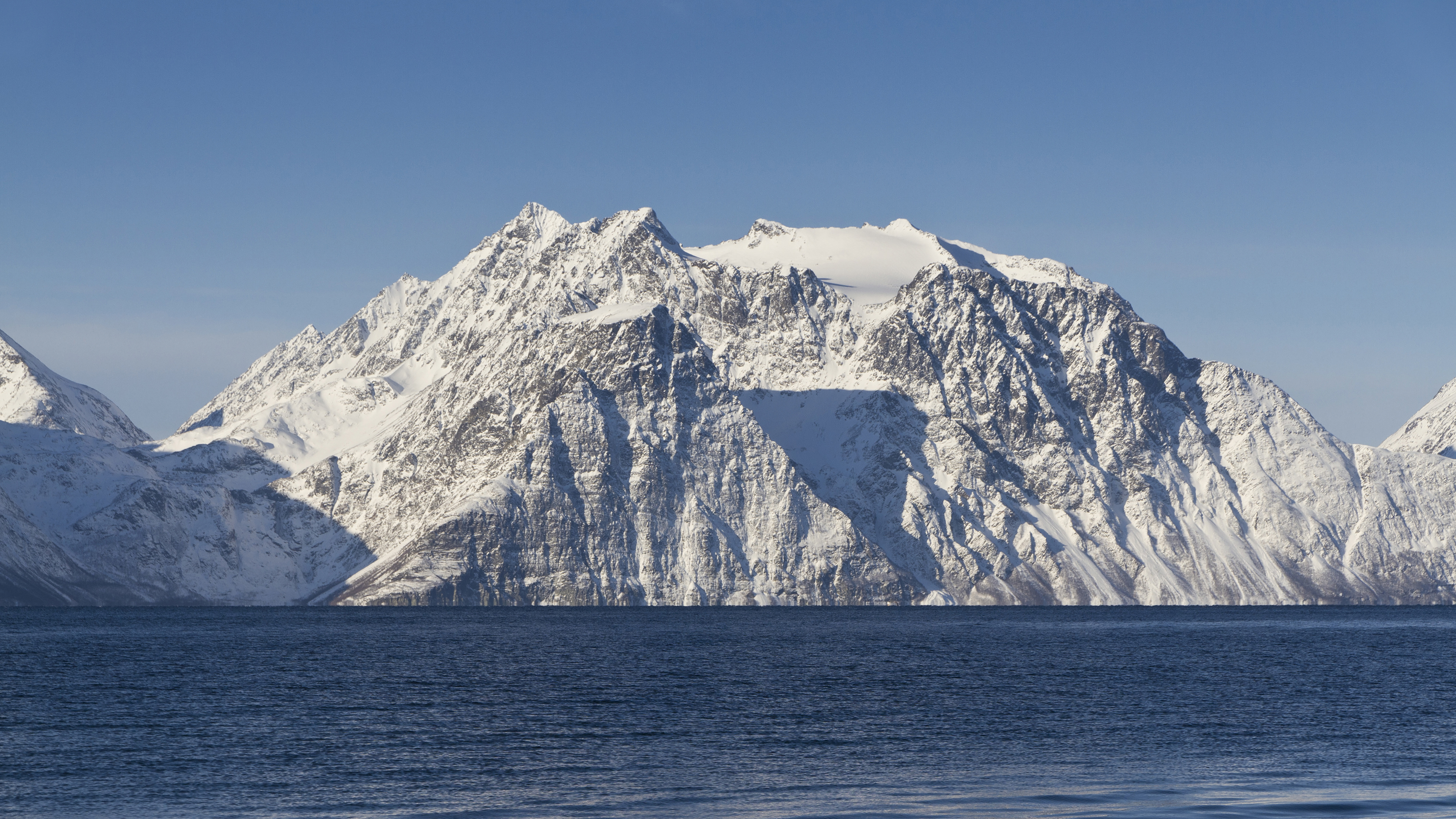 The steep mountain face of Støvelfjellet (1,464 m) with Store Reindalstinden (1,334 m) too in 2012 March. The massif is viewed over the Lyngen fjord below.